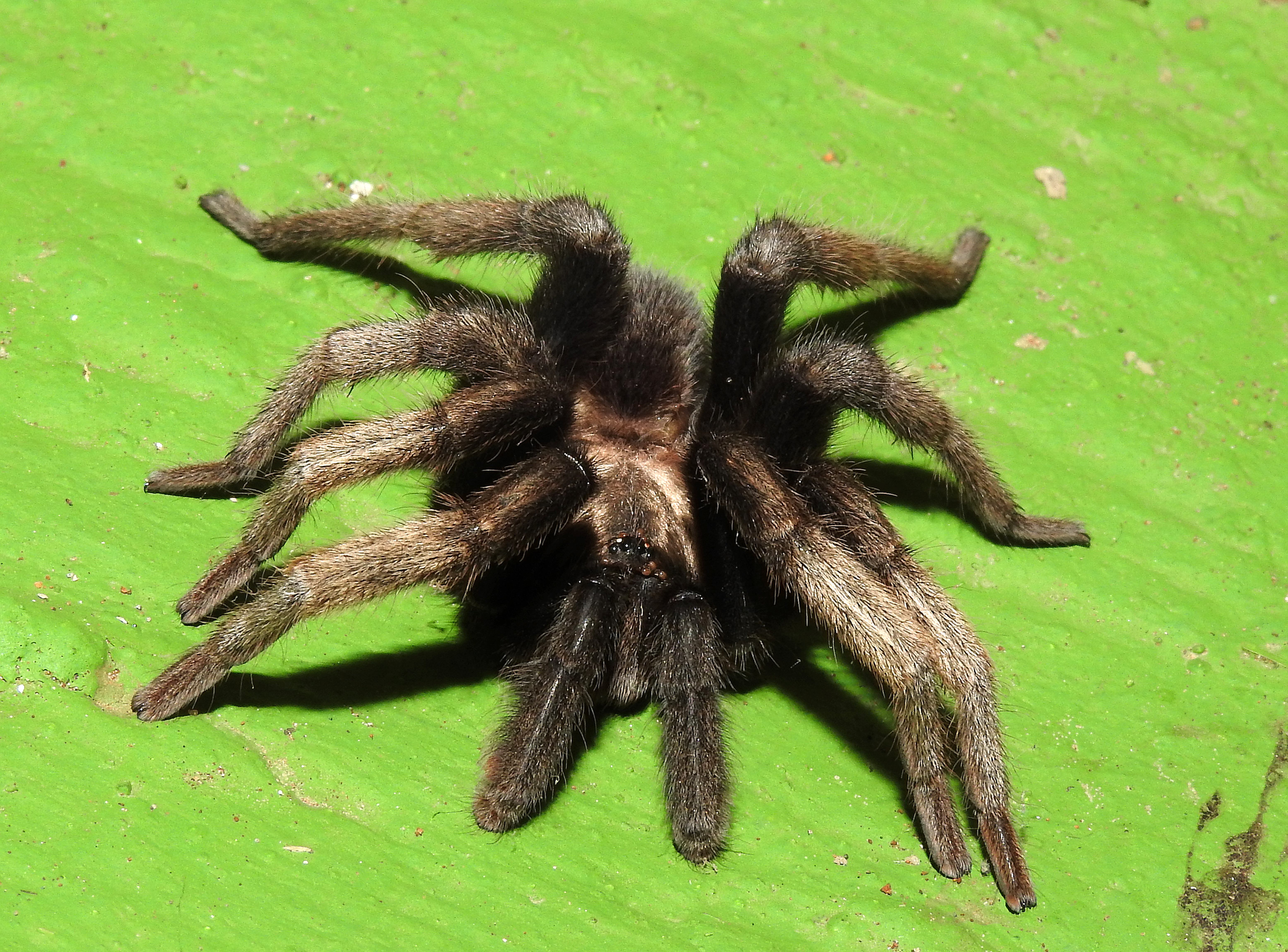 Fimbriated Striated Burrowing Spider Chilobrachys fimbriatus. Image by Dr. Raju Kasambe at BNHS Nature Reserve, Mumbai, Maharashtra